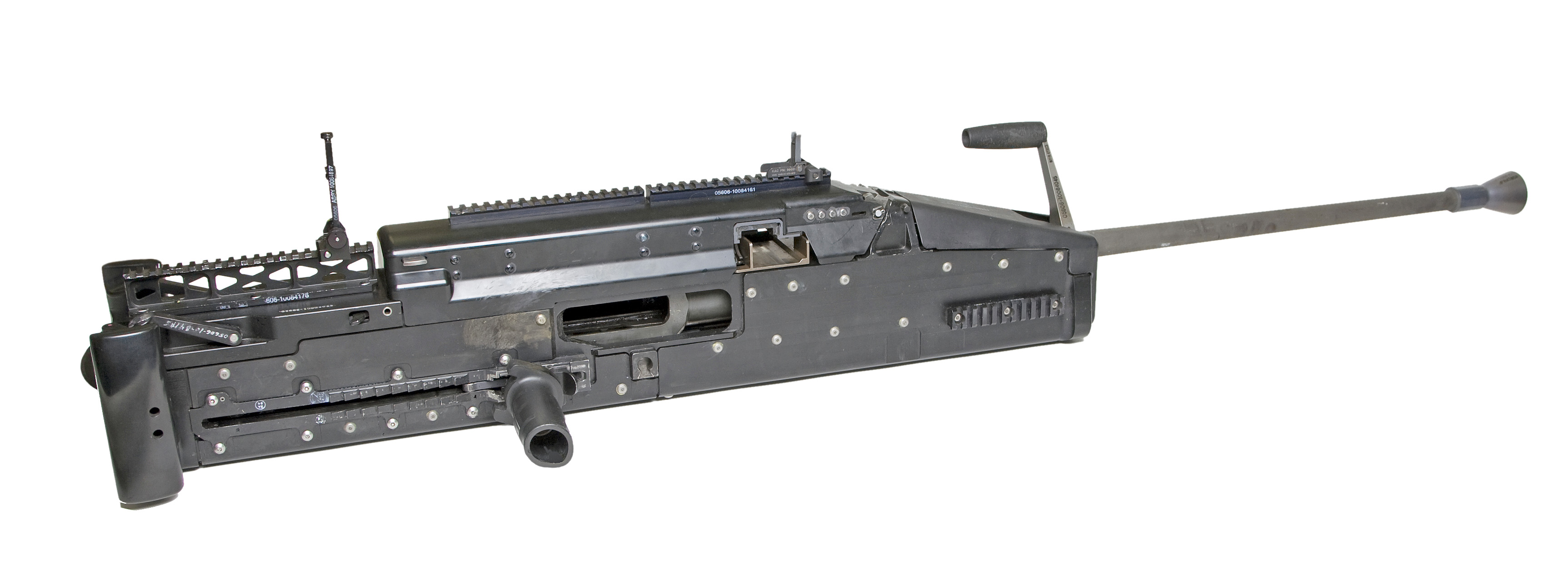 XM806 Lightweight .50 Caliber Machine Gun Provides vehicle and weapon squads with a lightweight .50 caliber weapon system that is easily dismounted from vehicles for ground mount applications.